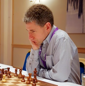 Michael Adams at 2013 Chess World Cup